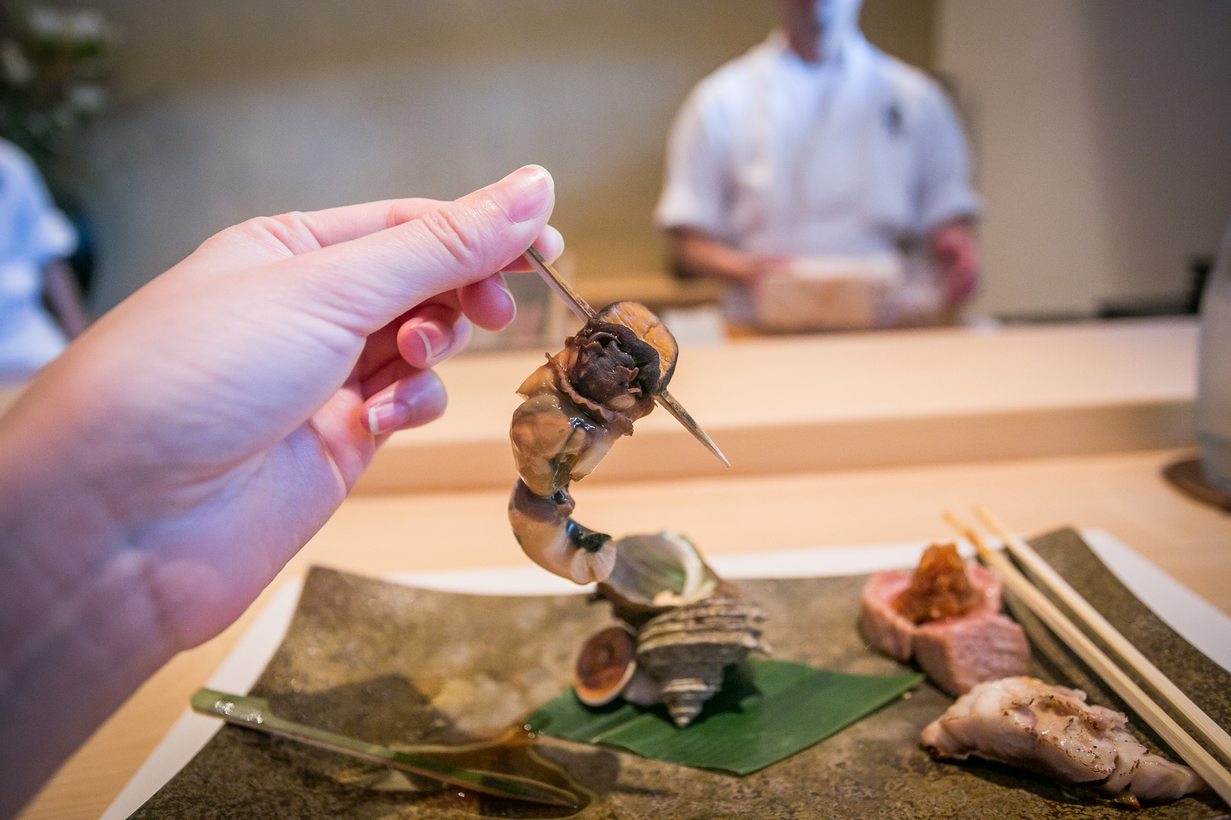 Kabuto, Las Vegas, NV Date Visited: July 19, 2013 City Foodsters Facebook | Twitter | Instagram